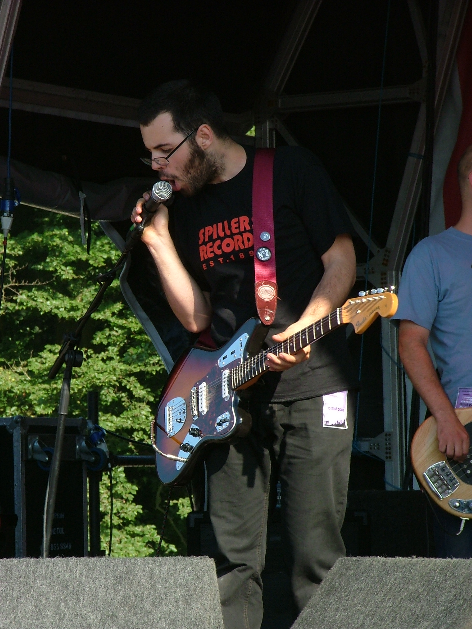 Steveless plays Ashton Court Festival 2005